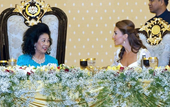 The Kate Middleton the Duchess of Cambridge attends a state dinner in Kuala Lumpur Malaysia during her and the Duke of Cambridge's tour of South East Asia and the Pacific in September 2012.